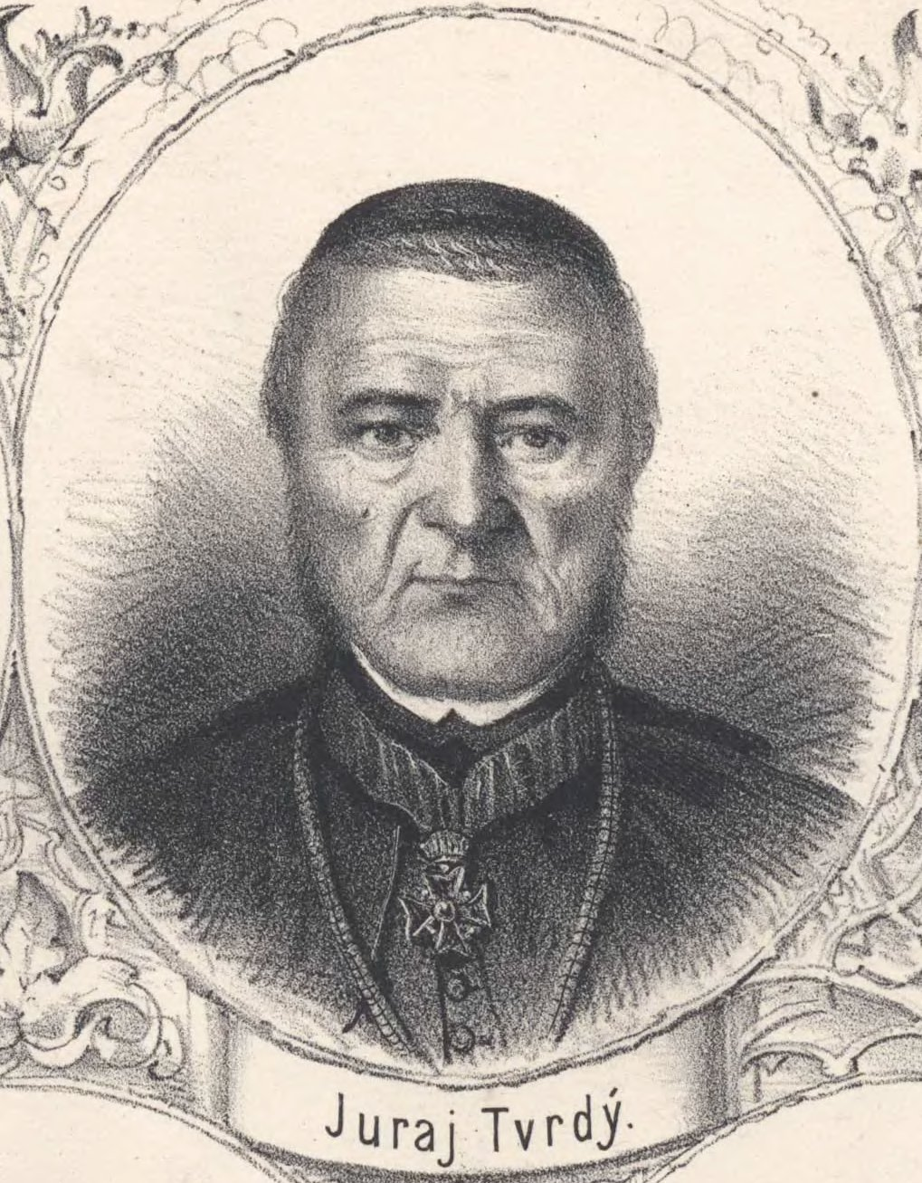 Portrait of Juraj Tvrdý (1780-1865), Slovak priest, supporter of culture and philantropist. Cropped from a gallery of Slovak celebrities.